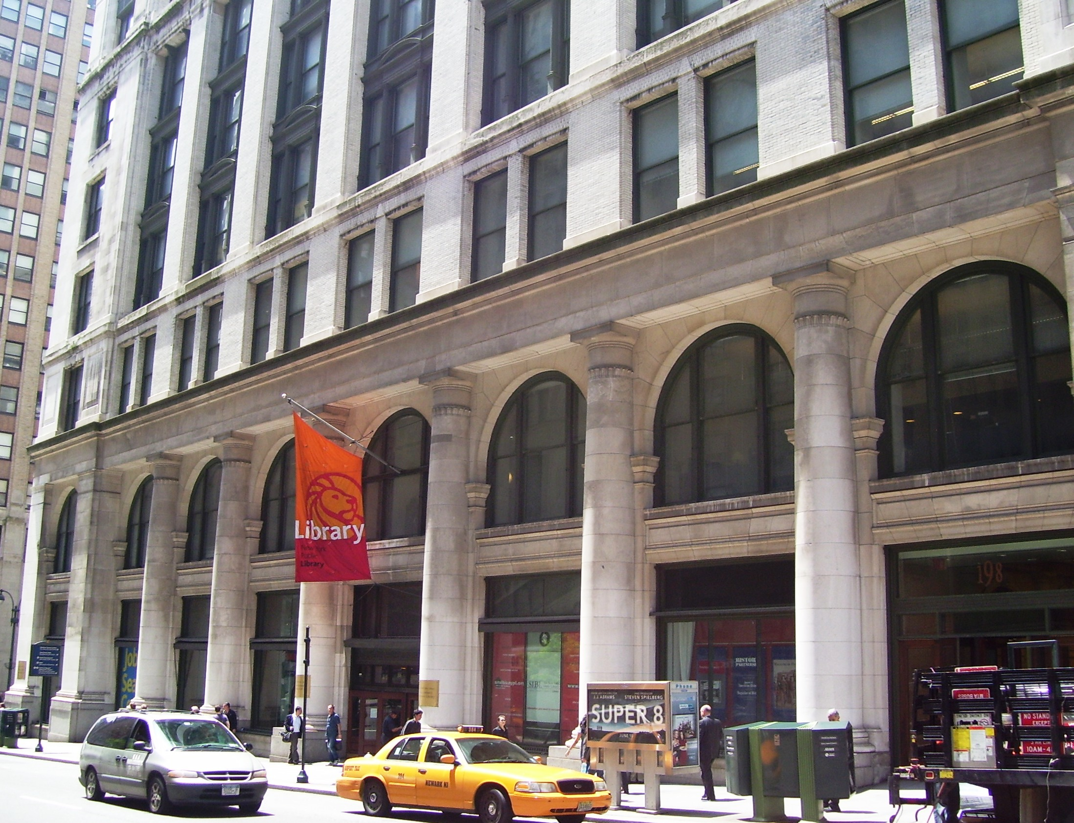 The B. Altman & Company Building at 351-57 Fifth Avenue from East 34th to 35th Streets, through to 188-89 Madison Avenue, was built in stages from 1906-1913, designed by Trowbridge & Livingston in Italian Renaissance style. Altman's was the first big department store to make the move from the "Ladies' Mile" shopping district, where the dry goods emporia had been located, to Fifth Avenue. The neighborhood was still primarily residential at the time, and the design of the new building was planned to fit in with the palatial mansions around it. Following Altman's example, the other big stores followed and made the move uptown as well. The store close in 1989, and was vacant until 1996, when the exterior was restored by Hardy Holzman Pfeiffer and the interior reconfigured by Gwathmey Siegel & Associates for the City University of New York Graduate Center on the Fifth Avenue side, the New York Public Library's the Science, Industry and Business Library on the Madison Avenue sie, and the Oxford University Press. (Source: AIA Guide to NYC (4th ed.) and Guide to NYC Landmarks (4th ed.))